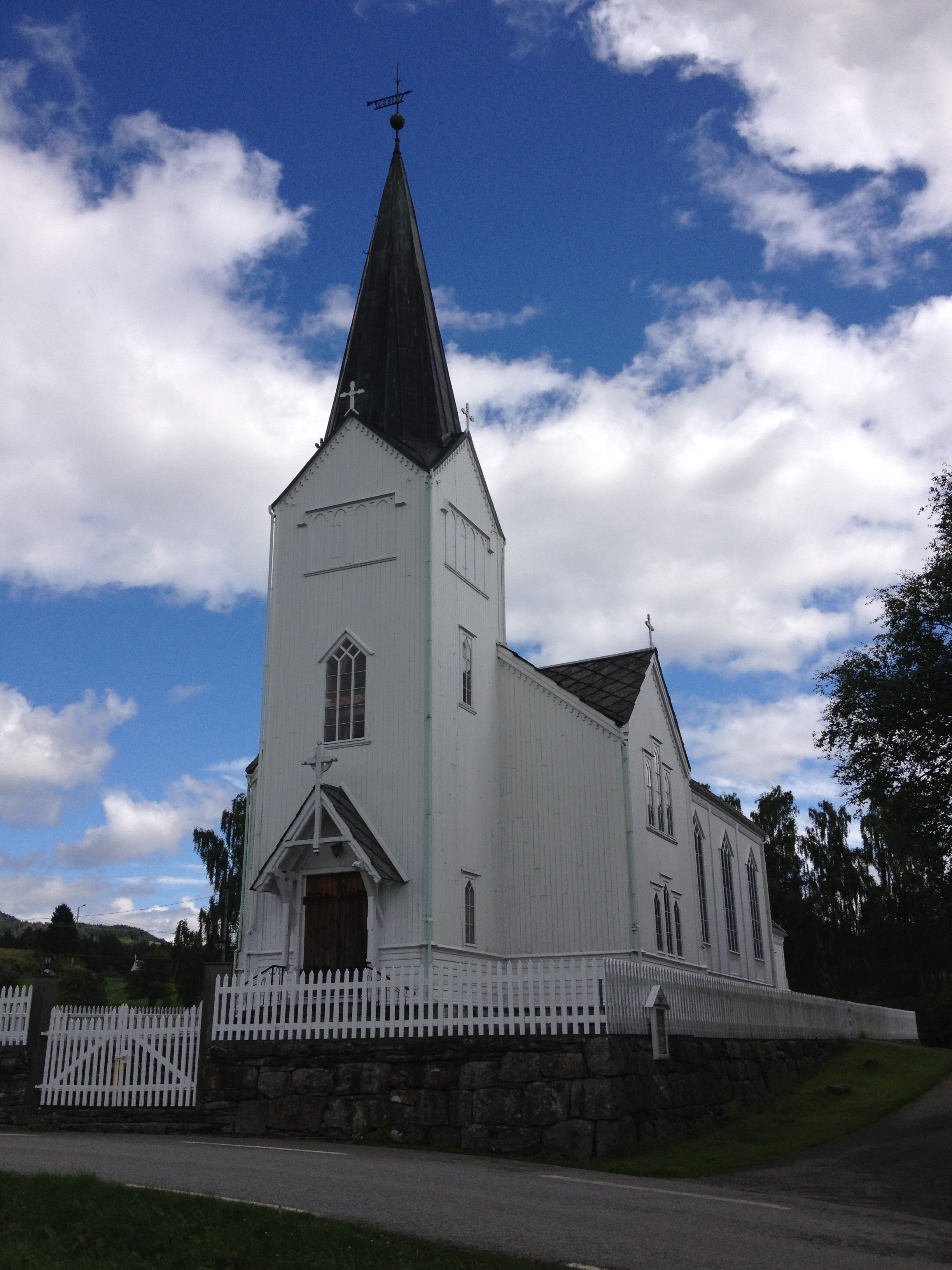 Varaldsoy Church